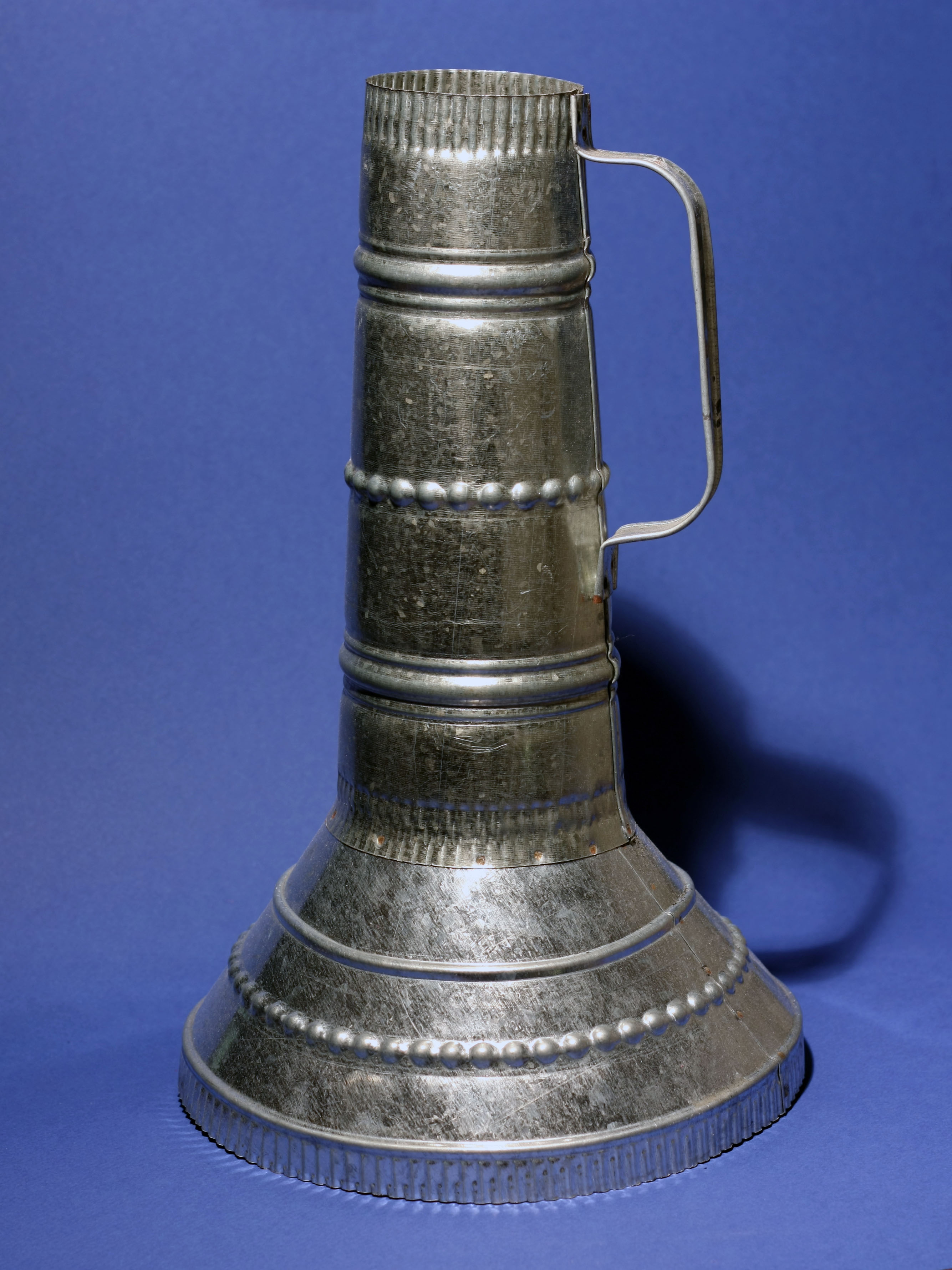 Chimney starter, a Metal bending work from Iran